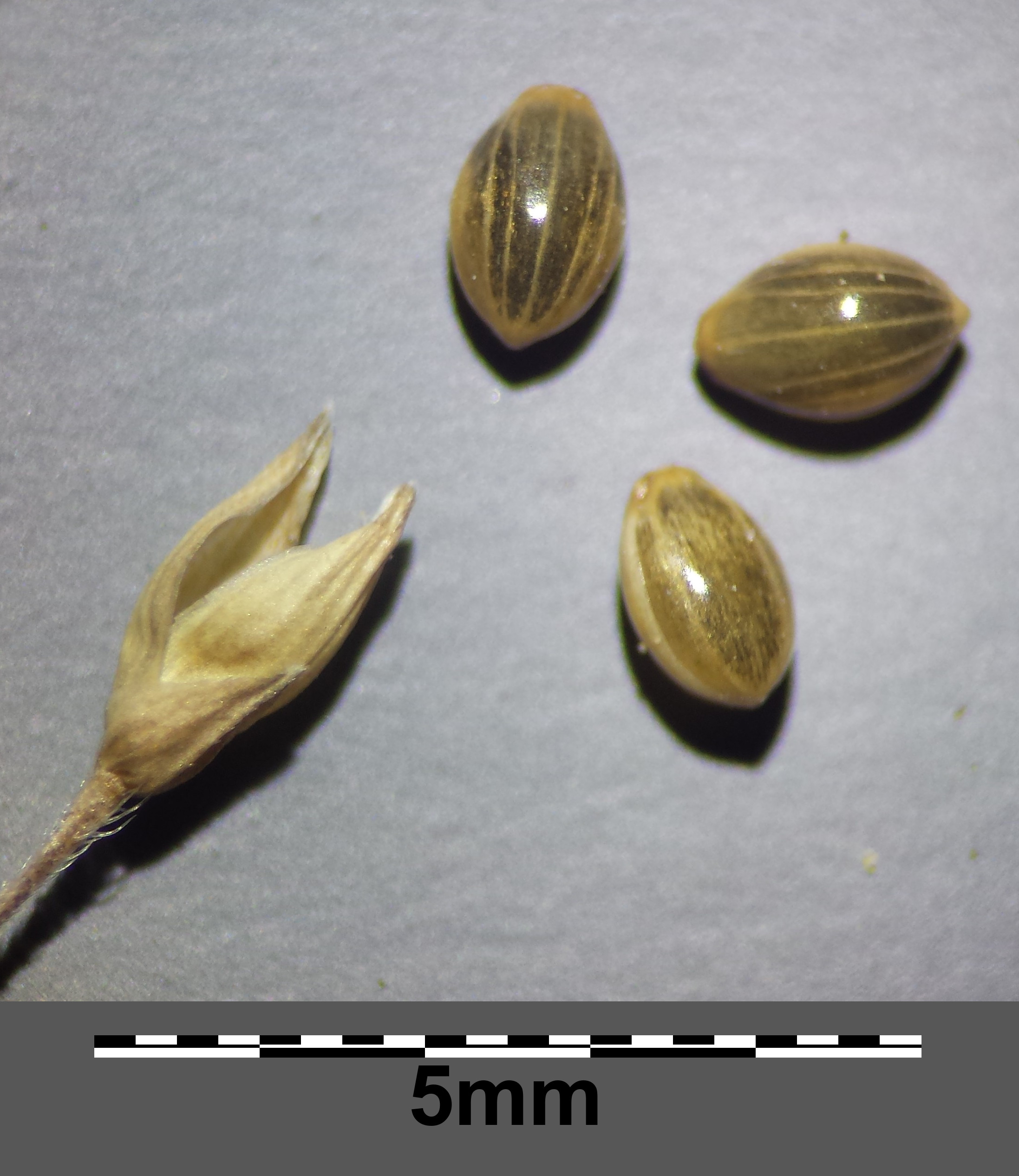 Spikelet with caryopses Taxonym: Panicum capillare ss Fischer et al. EfÖLS 2008 ISBN 978-3-85474-187-9 Location: Grellgasse, Vienna-Floridsdorf - ca. 160 m a.s.l. Habitat: slope